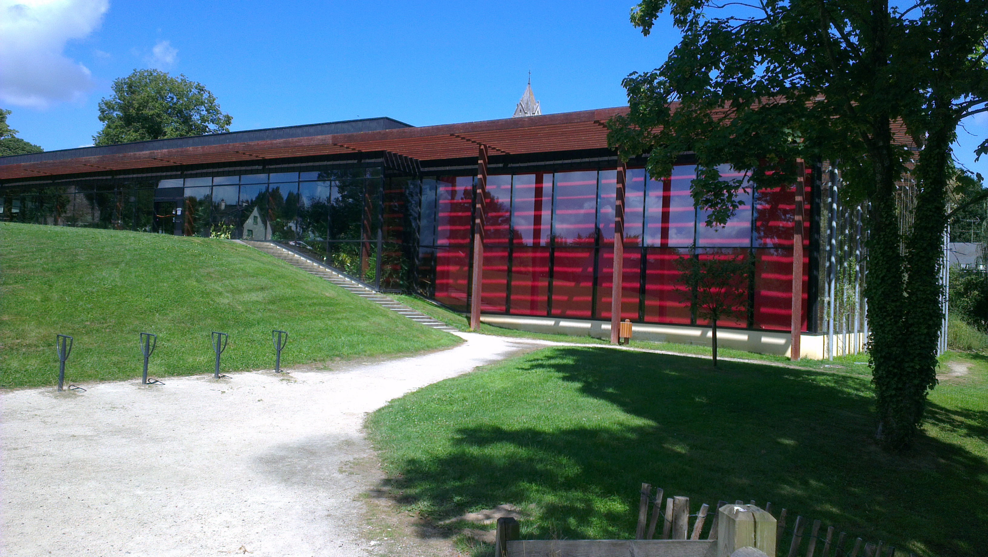 Betton, little town in France - the Médiathèque Théodore Monod.